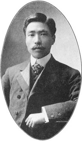 Sadamasa Imaki